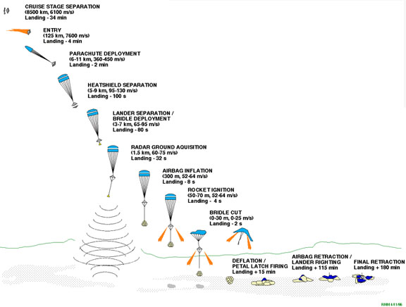 Mars Pathfinder landing